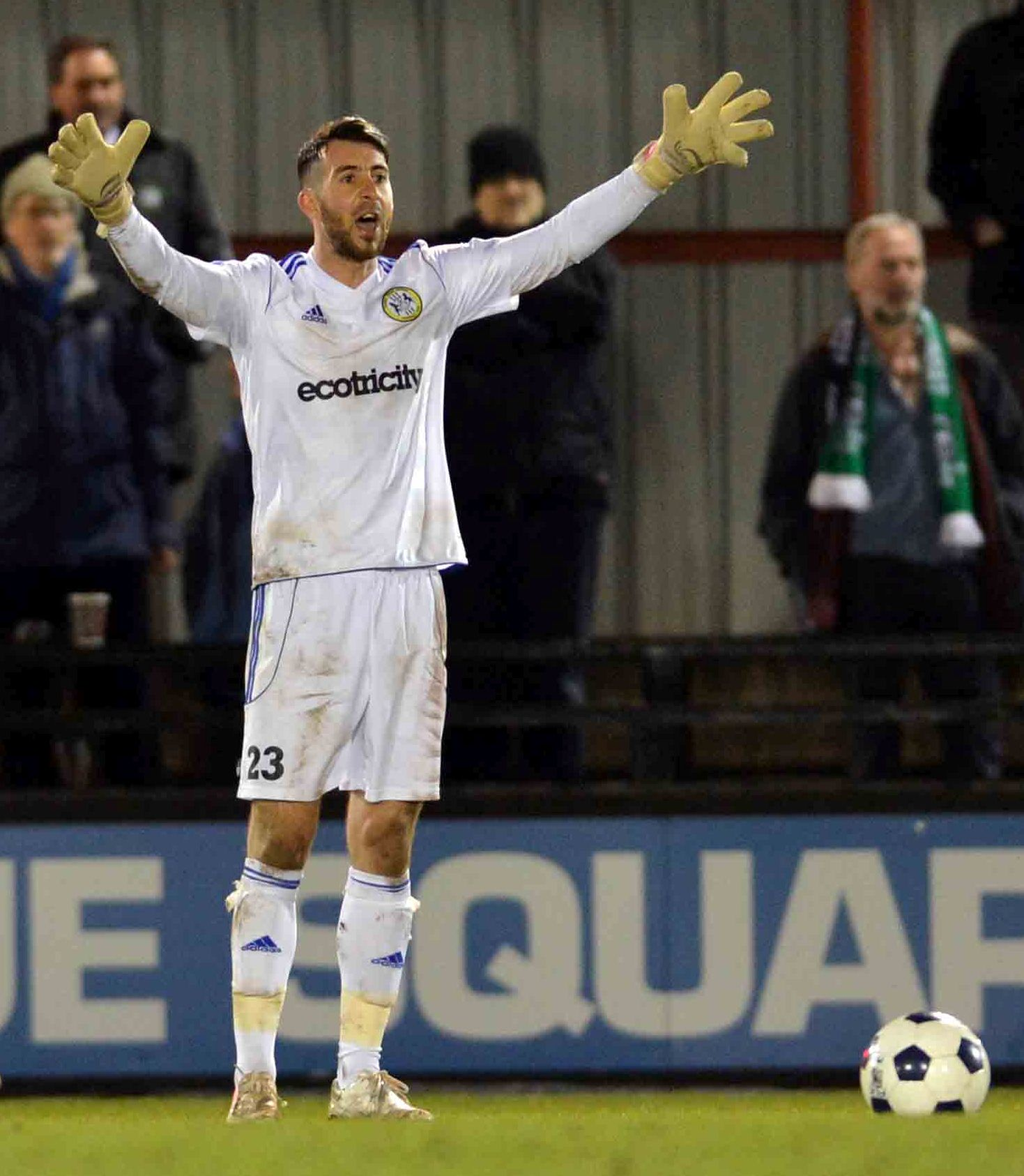 Sam Russell playing for Forest Green Rovers during the 2012/13 season.